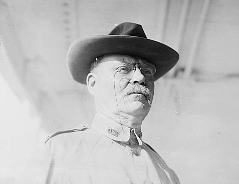 Tasker H. Bliss (1853-1930), general, Chief of Staff of the United States Army